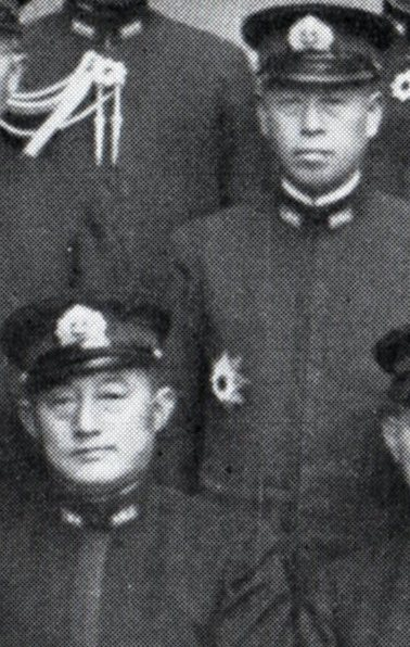 Mitsumasa Yonai and Isoroku Yamamoto